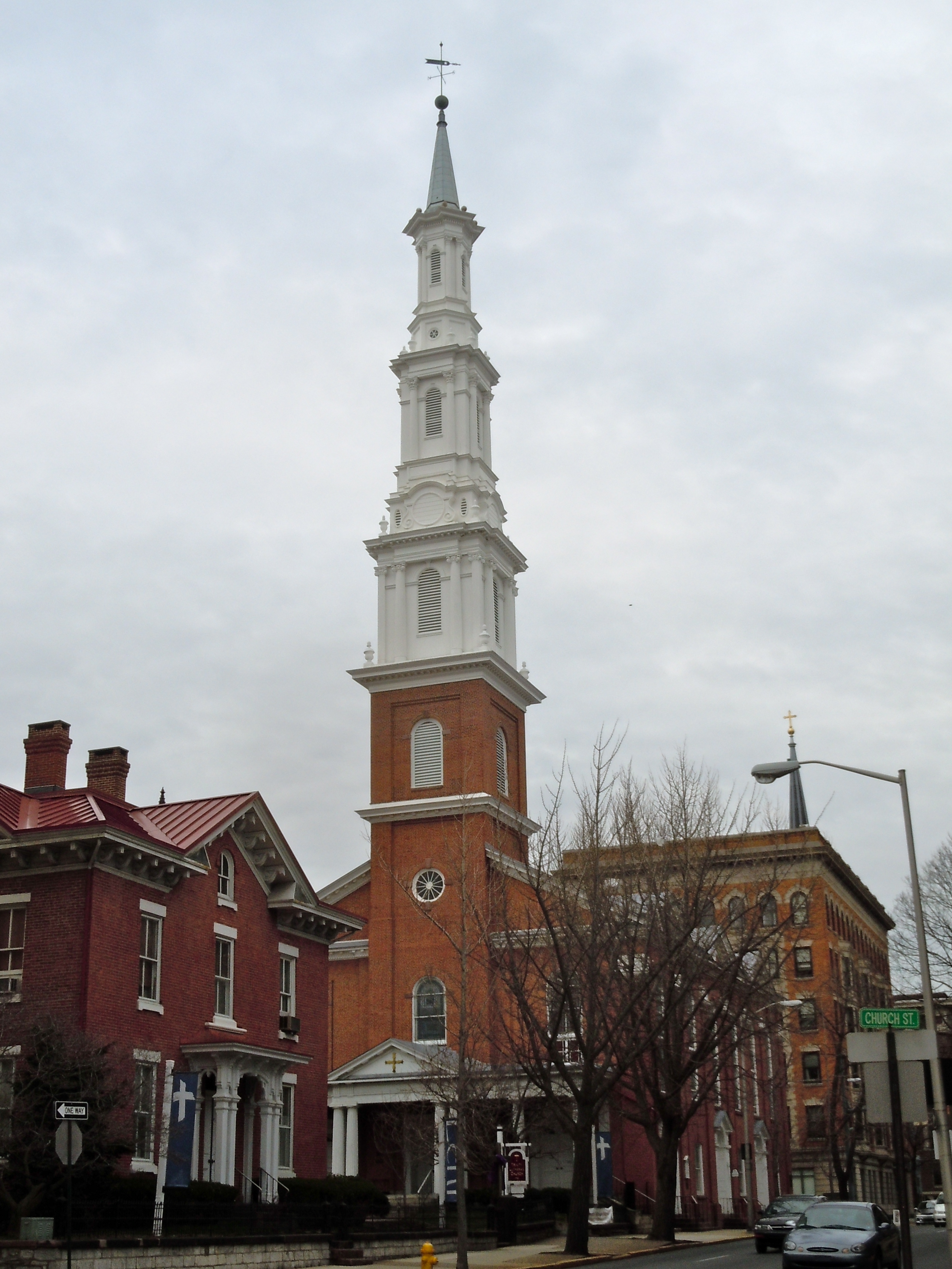 Trinity Lutheran Church on the NRHP since June 7, 1976. At 6th and Washington Streets, Reading, Pennsylvania.